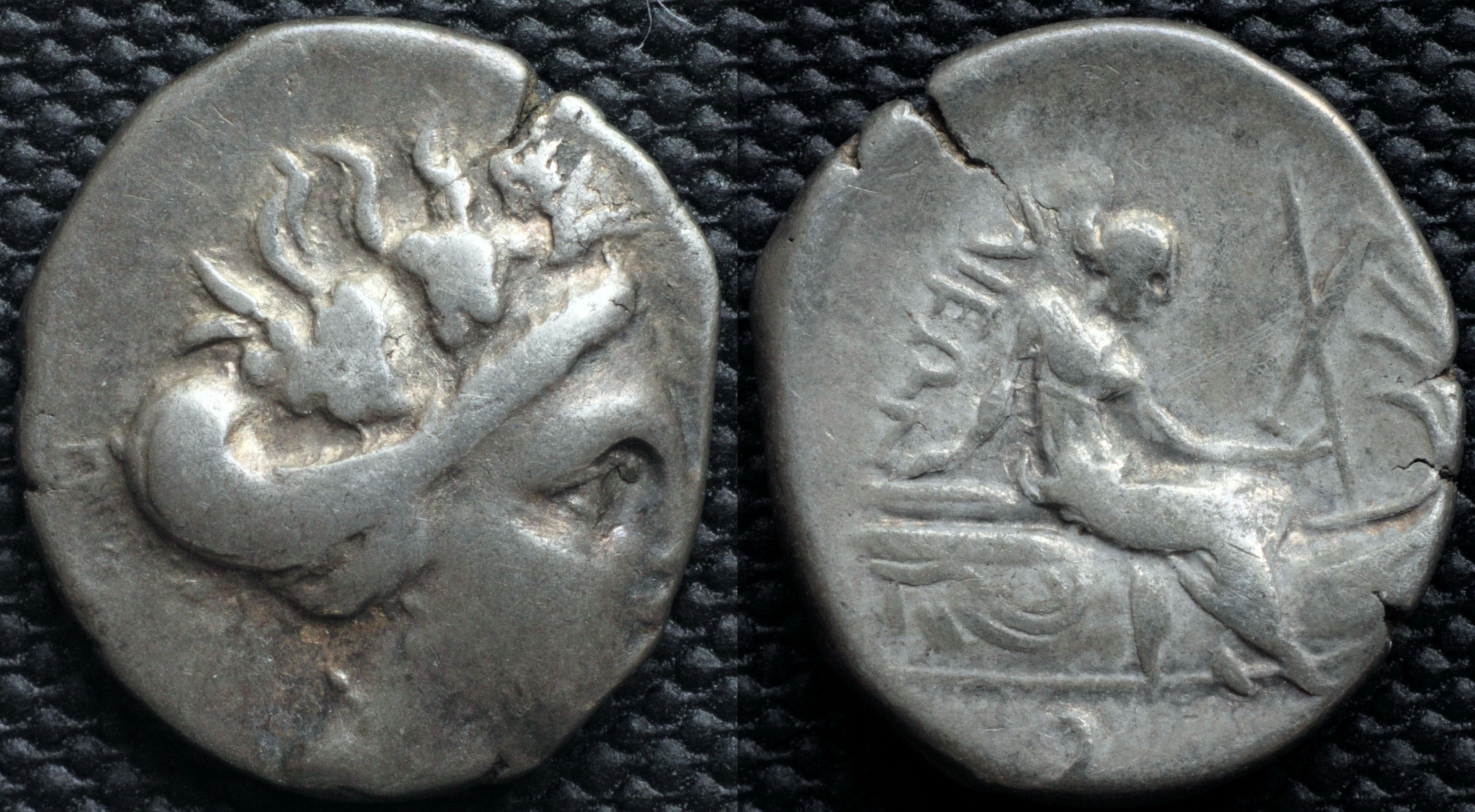 struck in Histiaea before 146 BC obverse: head of Maenad with wine-wreath reverse: nymph Histiaia seated right on stern of galley IΣTI / AIEΩN reference: SNG Cop. 517,2 weight: 1,74g diameter: 13mm